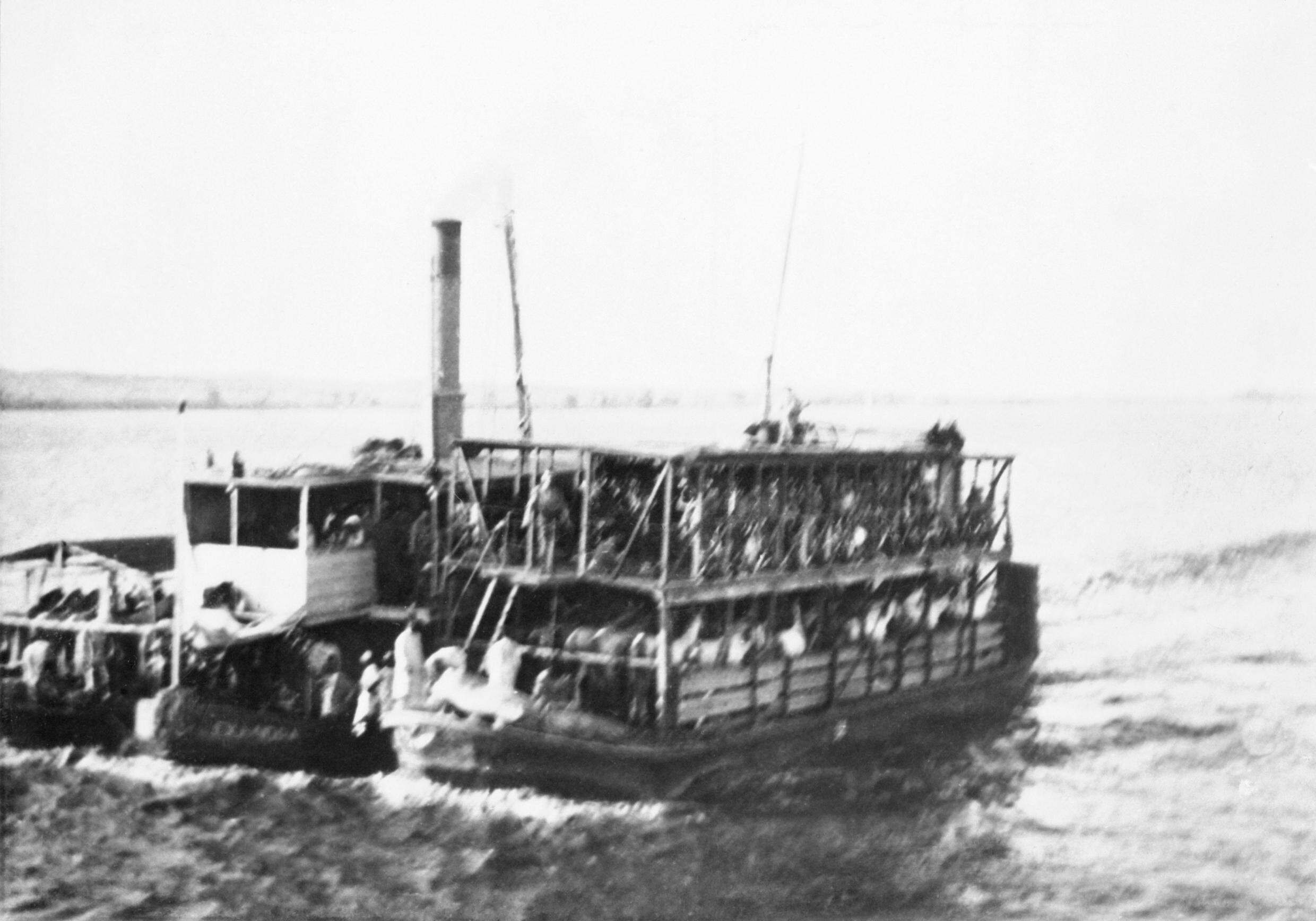 General Kitchener and the Anglo-egyptian Nile Campaign, 1898 Blurred photograph showing a stern wheeler river steamer transporting men of the 21st Lancers south on the River Nile from Aswan to Wadi Halfa, en route to join Kitchener's forces in Sudan.